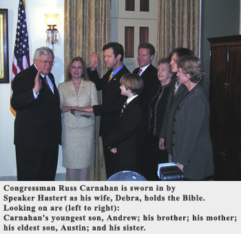 Uploaded from Congressman Carnahan's official website.